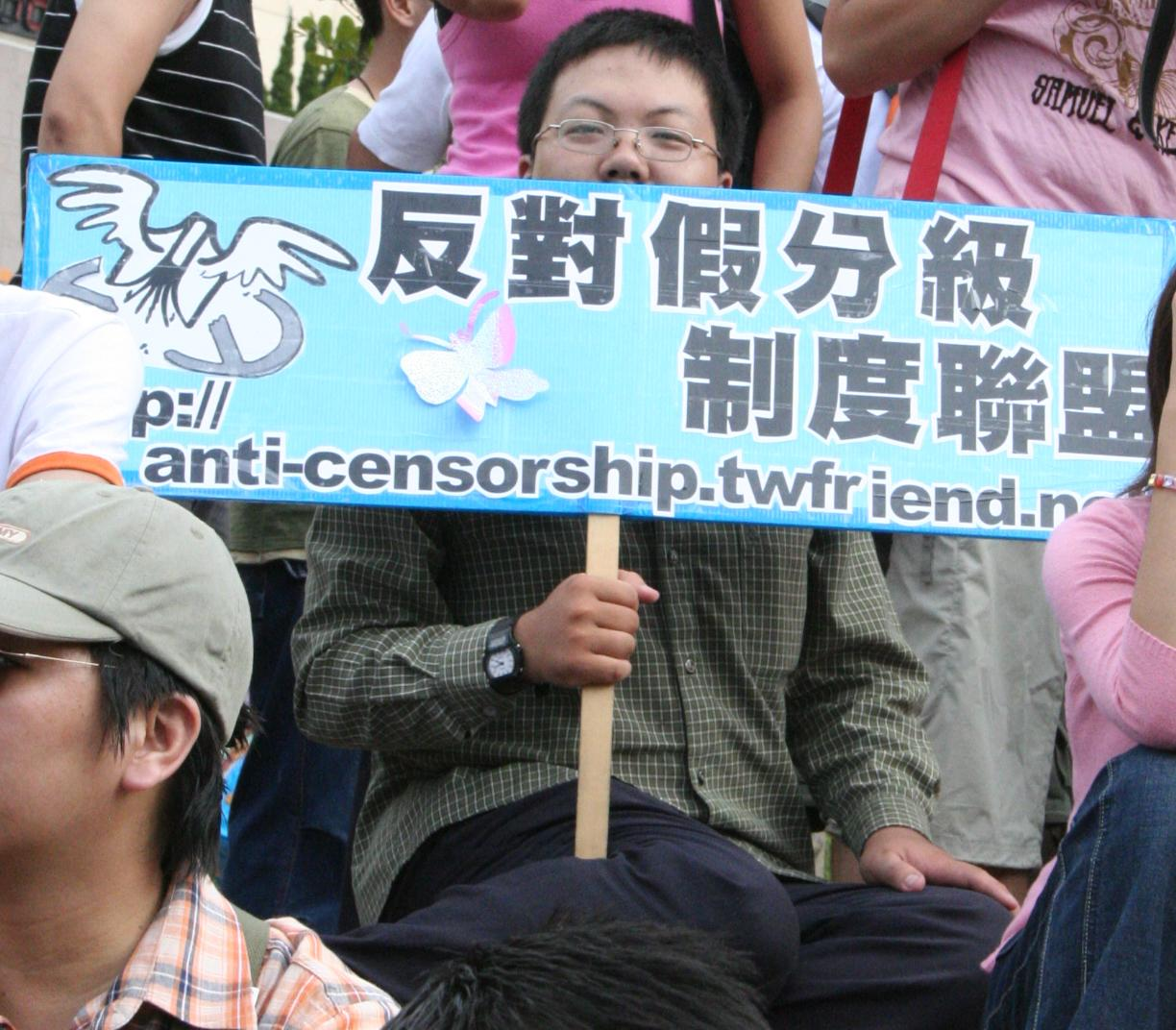 反對假分級制度聯盟參加2005年台灣同志大遊行。 Anti-Censorship Taiwan near stage at the end of parade Taiwan Pride 2005. Anti-Censorship Taiwan 2005-10-01 16:12:54 Taipei City Hall, Taiwan Photo by user:Atinncnu at Wikimedia. Released to Public Domain.